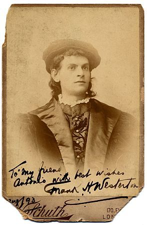 Cabinet photograph of the actor Francis Henry Westerton (1882-1923) by William Schuth, 170 Fleet Street, London, E.C., probably 1893